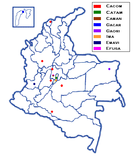 Location map of the Air Units of the Colombian Air Force